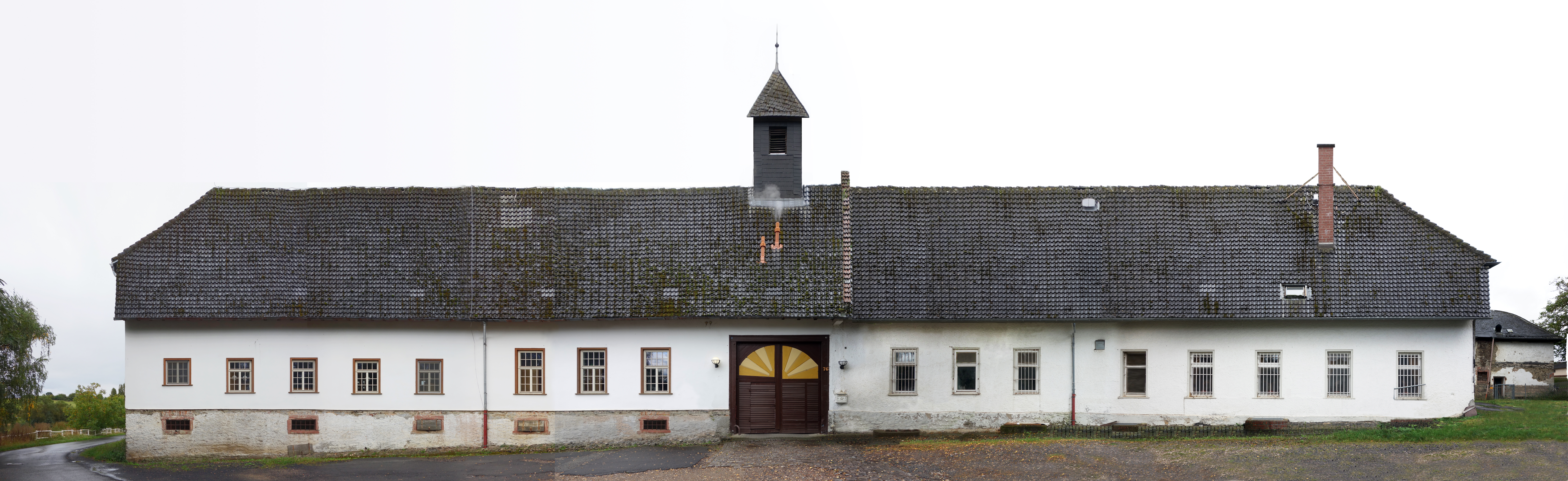 Main building of Hofgut Gassenbach, built of rammed earth in 1811/1812; made from a number of composite photos